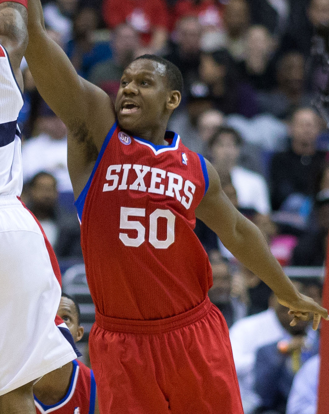 Lavoy Allen, Philadelphia 76ers at Washington Wizards March 3, 2013